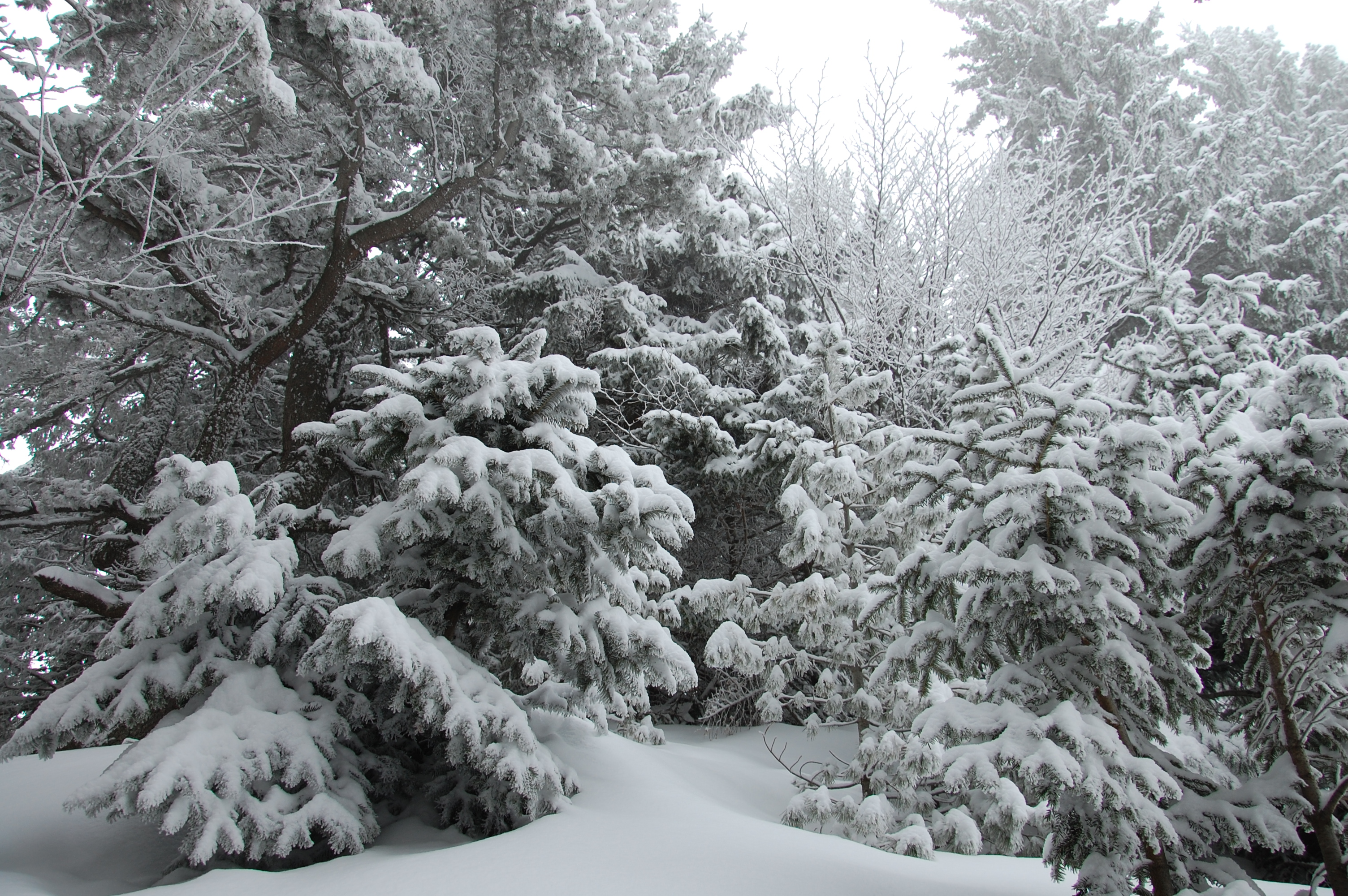 Pishat ne Malet e Sharrit